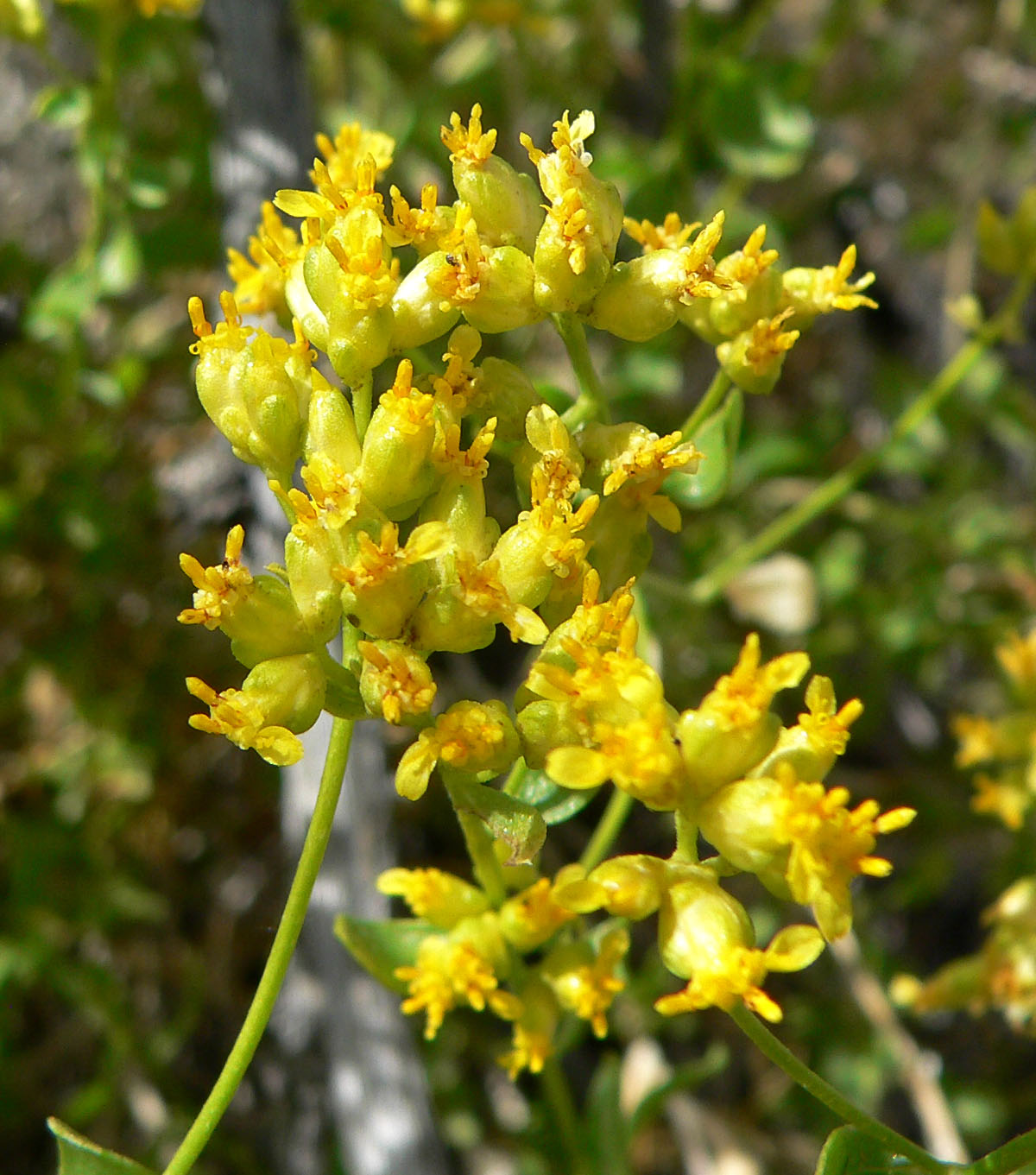 Amphipappus fremontii var. fremontii at Point of Rocks Springs, Ash Meadows, southern Nevada